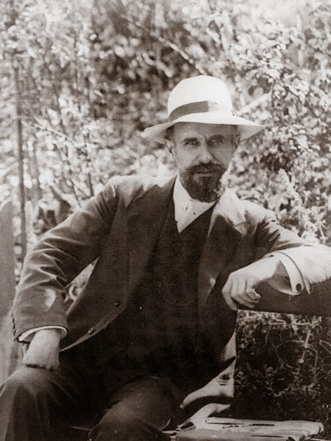 Painter Pierre Adolph Valette (1876-1942)